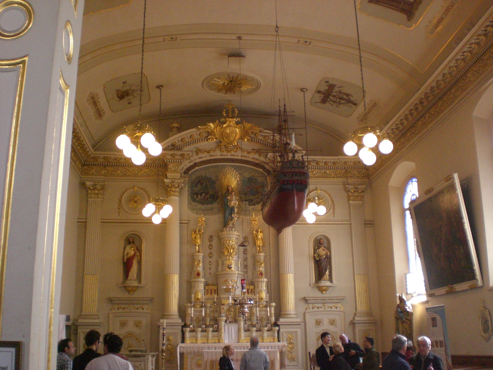 Photo of the interior of Notre-Dame-des-Victoires in Quebec city